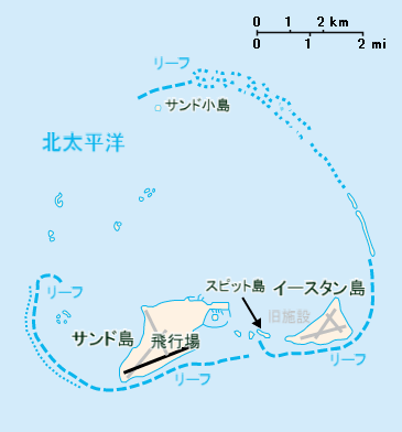 Midway Atoll with Sand Island, Spit Island and Eastern Island. Abandoned runways of Henderson Field in gray.